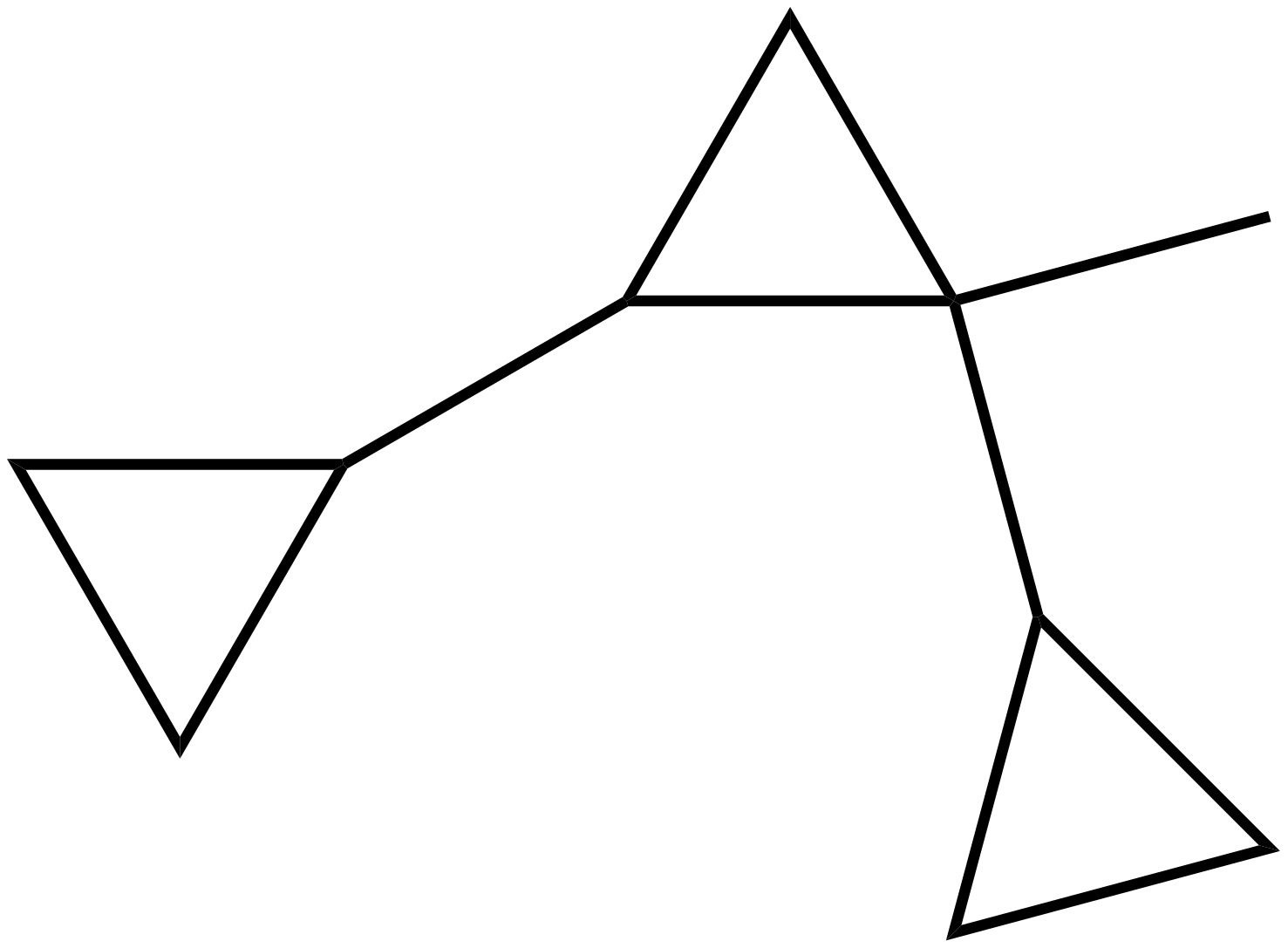 Chemical structure of syntin (1′-methyl-1,1′:2′,1′′-tercyclopropane; 1-Methyl-1,2-dicyclopropylcyclopropane; Sintin; Synthin; Tsycklin)